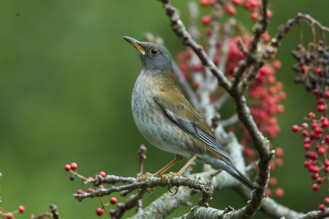 Pale Thrush - Taiwan_S4E8071